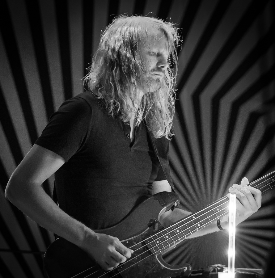 Even Ormestad, bass player in the Jaga Jazzist at the stage of Sentralen. The concert was part of the Oslo Jazz Festival in Norway and took place on 16. August 2016. Lineup: Morten Horntveth (drums) Marcus Forsgren (guitar) Andreas Mjøs (vibraphone) Even Ormestad (bass) Lars Horntveth (guitar) Line Horntveth (flute) Erik Johannessen (trombone) Øystein Moen (keyboard)